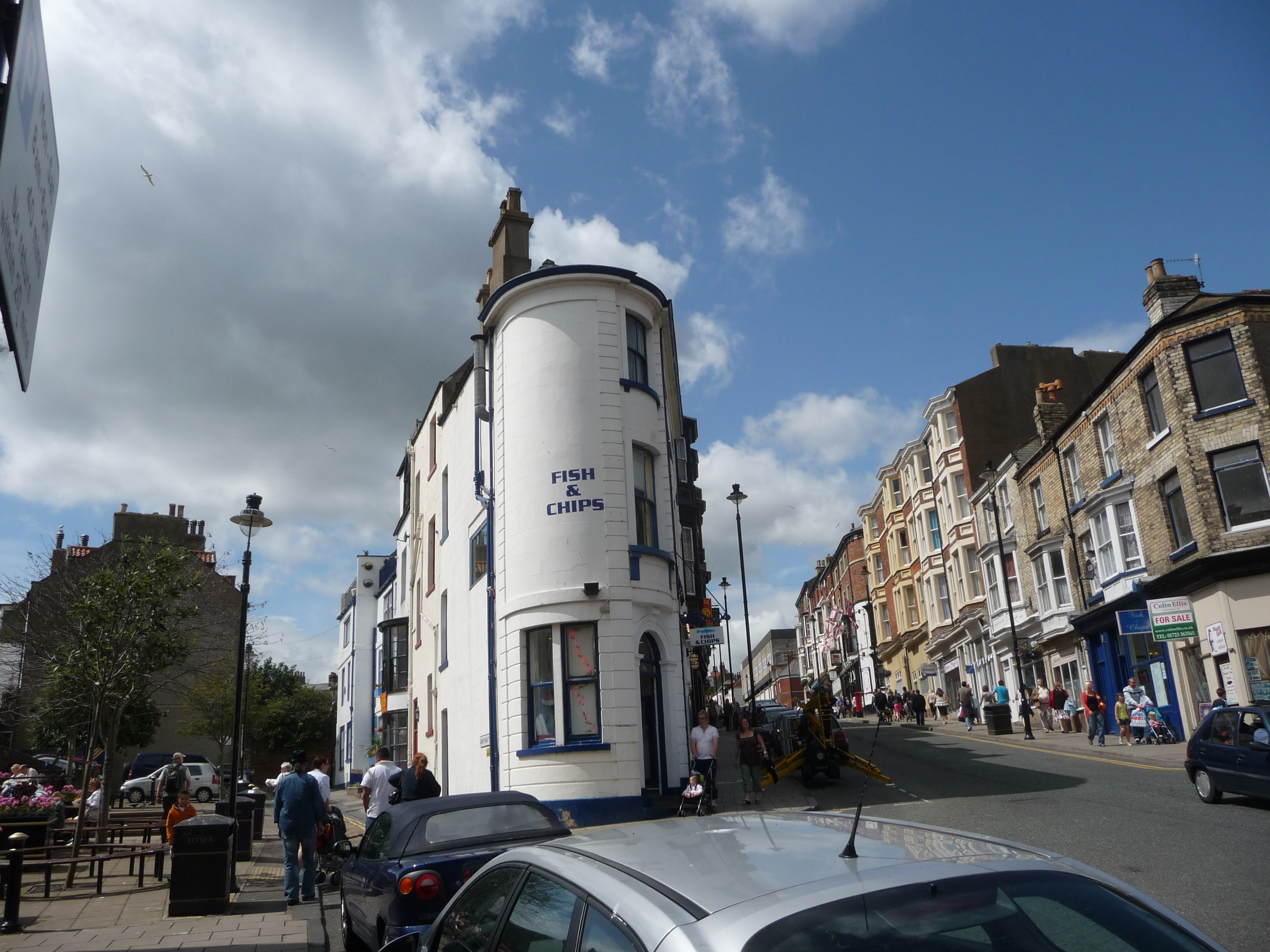 Scarborough in North Yorkshire, United Kingdom